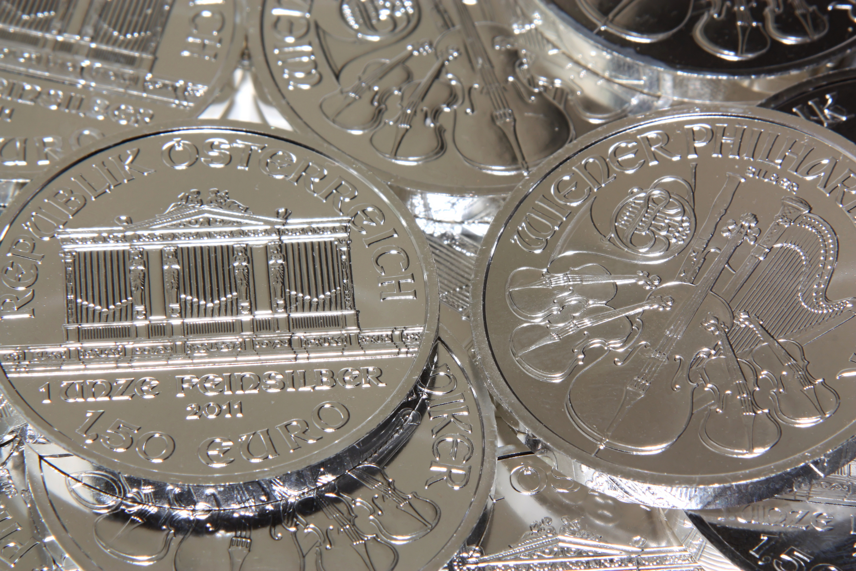 Silvercoins "Wiener Philharmoniker"